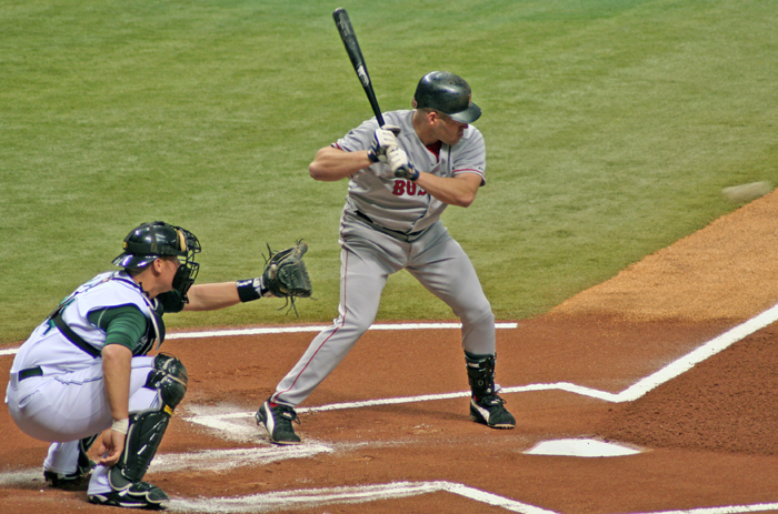 Kevin Youkilis at bat against the Tampa Bay Devil Rays, April 28th, 2006. Photo by Googie Man 12:56, 29 April 2006 . . Googie man . . 700×463 (385,176 bytes)